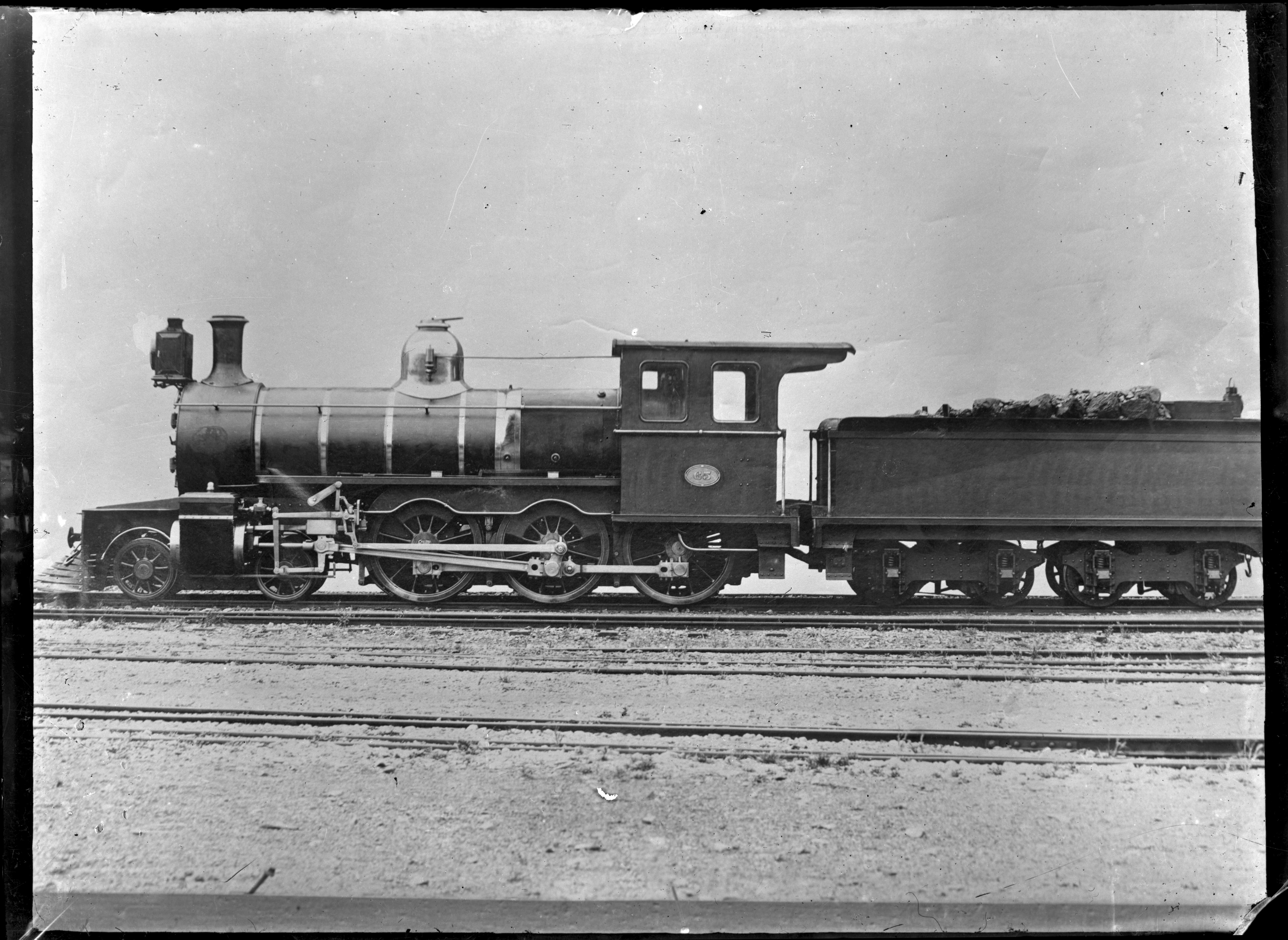 Steam locomotive "U" 65, type 4-6-0. Photograph taken by Albert Percy Godber.